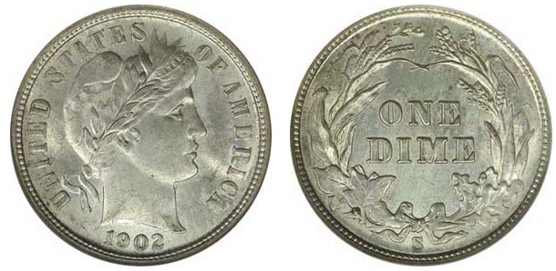 An en:1902 Barber dime (Obverse and reverse). This is a scan from coinfacts [1]. As a U.S. coin, the design is in the public domain, and per WP:IUP: "Also note that in the United States, reproductions of two-dimensional artwork which is in the public domain because of age do not generate a new copyright — for example, a straight-on photograph of the Mona Lisa would not be considered copyrighted (see Bridgeman v. Corel). Scans of images alone do not generate new copyrights — they merely inherit the copyright status of the image they are reproducing." Since this is simply a straight-on photo or scan, with no creative aspect involved, it should not be subject to copyright as per this precedent.